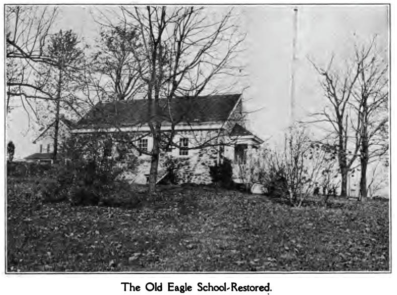 Photograph of the restored Old Eagle School in Strafford, Pa. as it appeared circa 1909